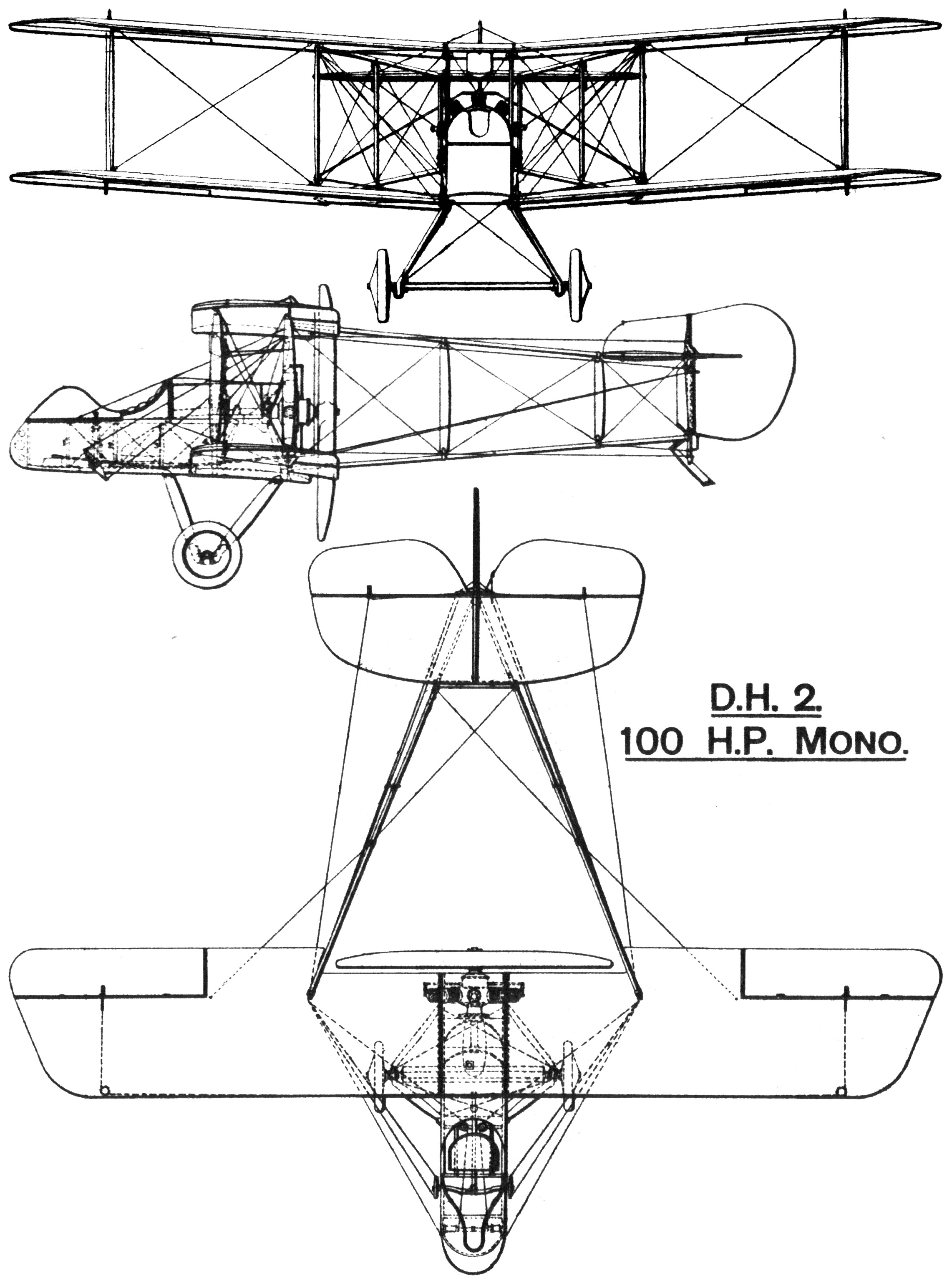 British First World War single seat fighter rigging drawing